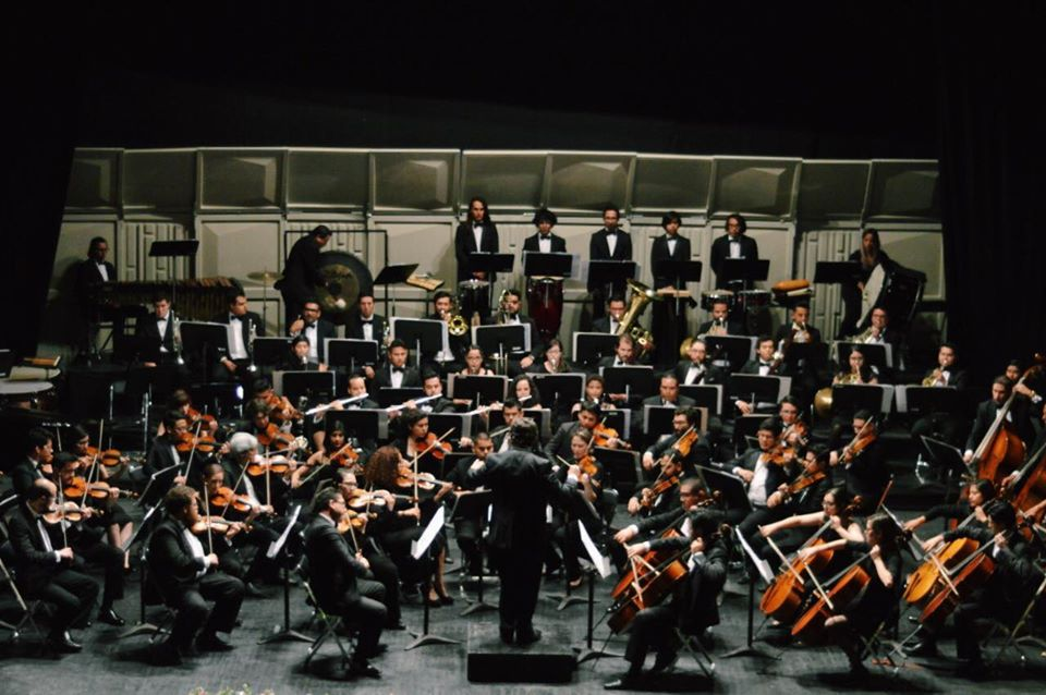 Zacatecas State Orchestra